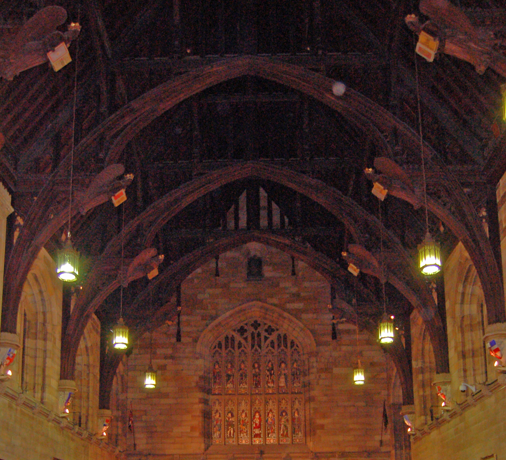 Roof, Great Hall, the University of Sydney, Sydney, Australia